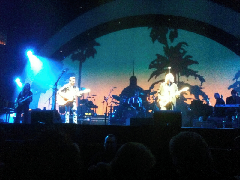 The Eagles in Concert performing Hotel California, May 9, 2010 in Vancouver